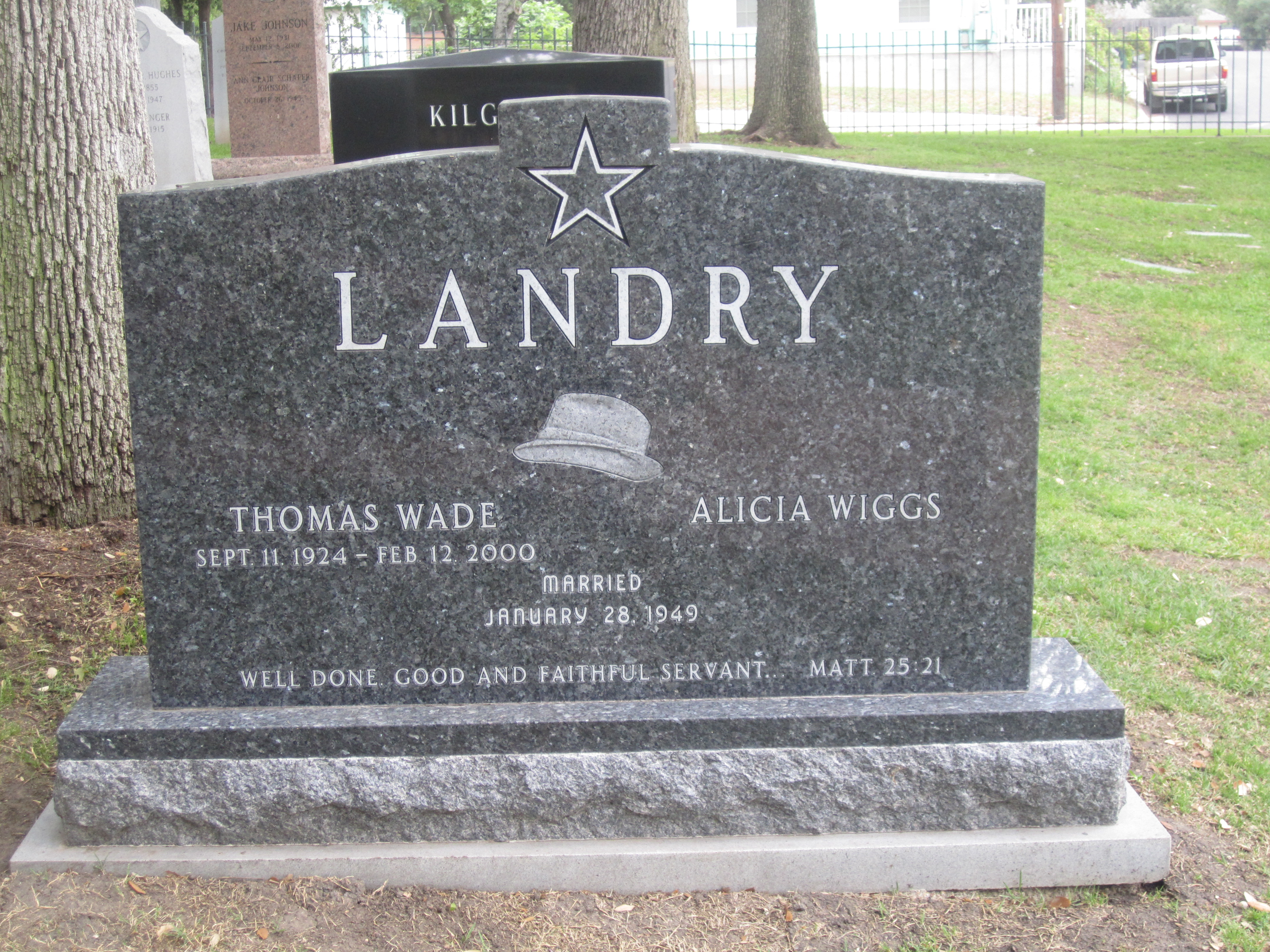 I took photo with Canon camera at Texas State Cemetery in Austin: Tom Landy centograph.